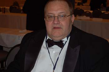 American fantasy, horror, and science fiction writer Jeffrey Ford.